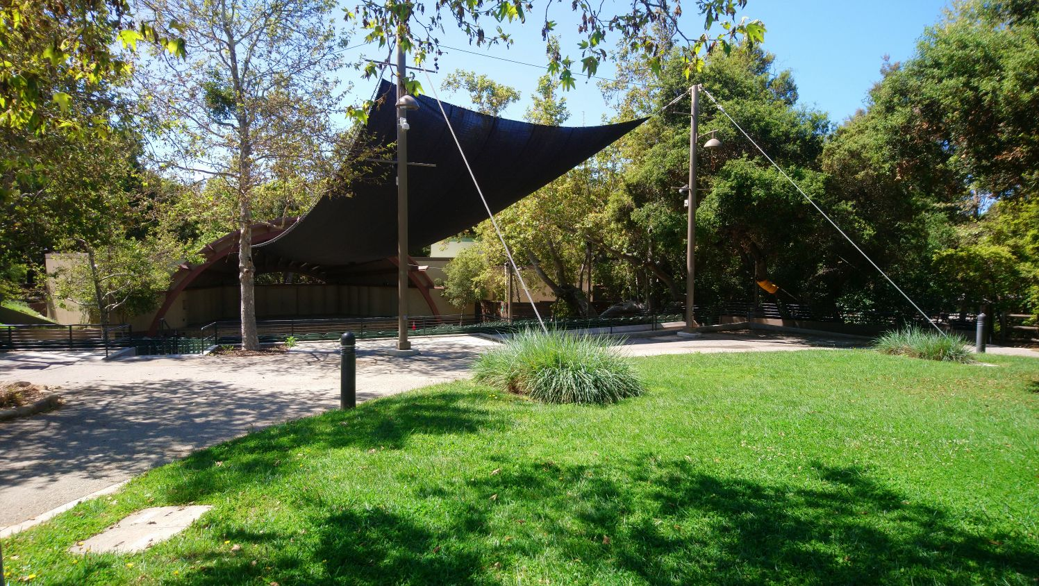 Libbey Bowl in Libbey Park in Ojai.